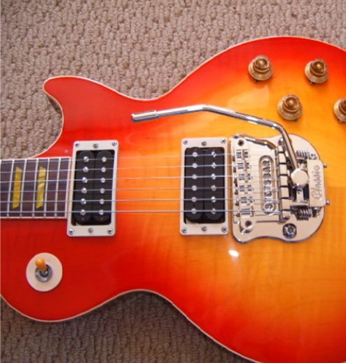 This is the Stetsbar Stop-Tail on a Gibson Les Paul